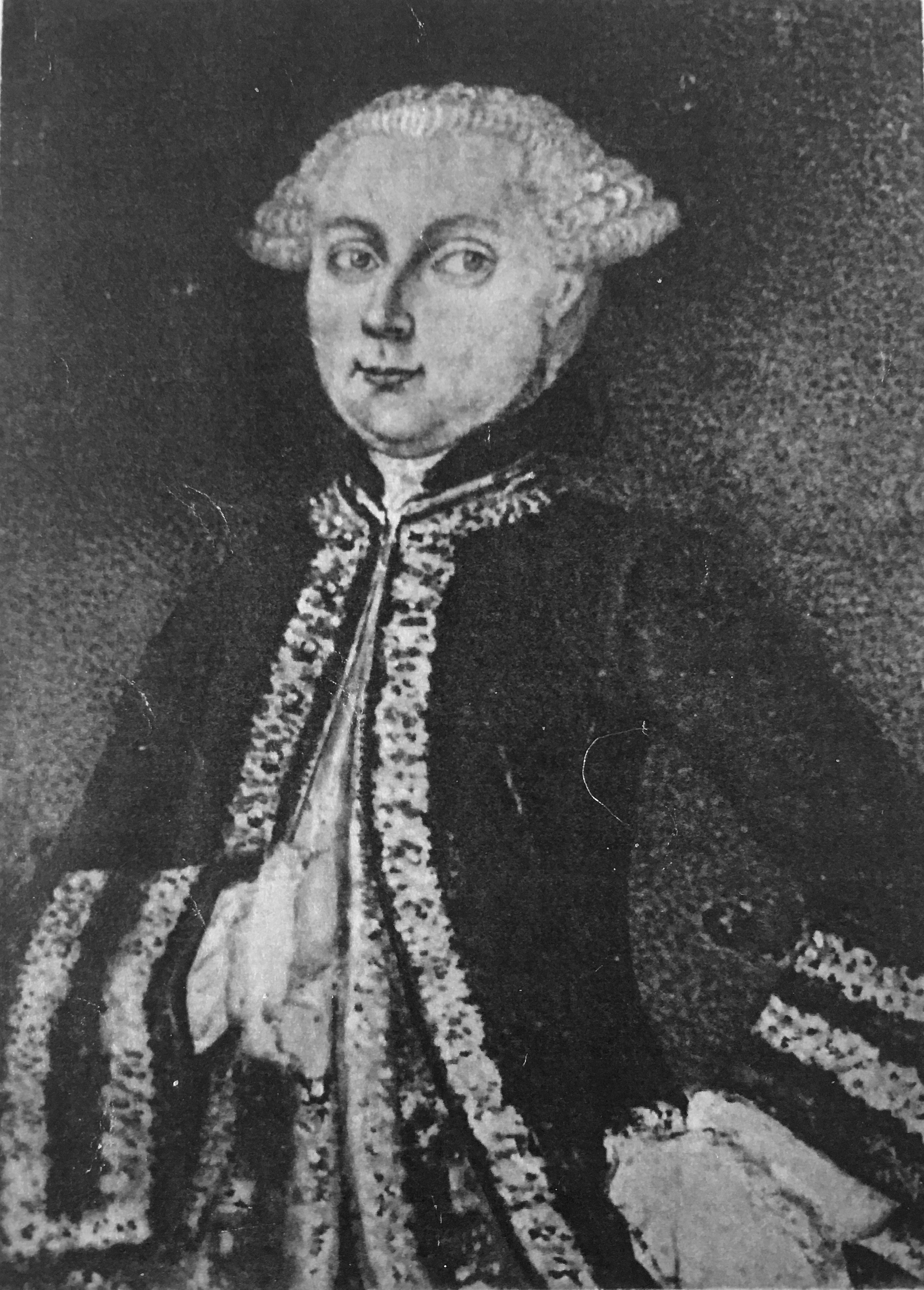 Emmanuel de Perceval